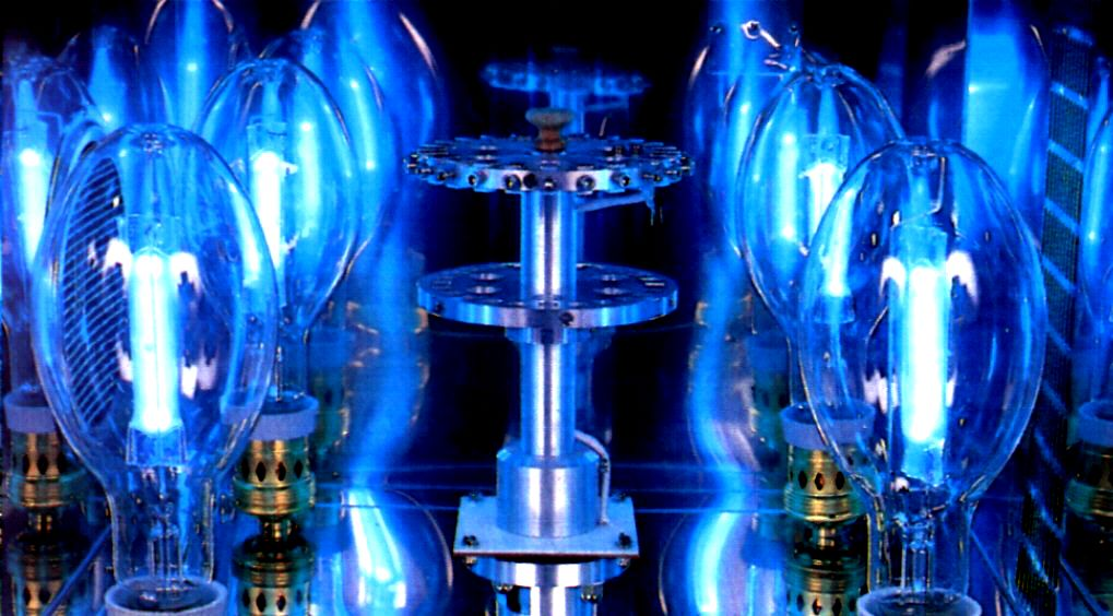 SEPAP, accelerated photoageing device